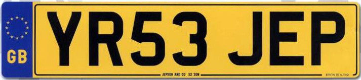 Example of a number plate from the United Kingdom. Licensing Image sourced from friend who is the copyright owner. Permission Granted.